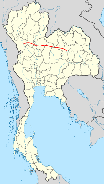 Approximate course of Thailand's National Route No. 12.